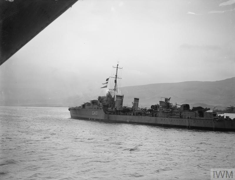 The Tribal class destroyer HMS Tartar in Hvalfjord, Iceland as seen from the aircraft carrier HMS Victorious